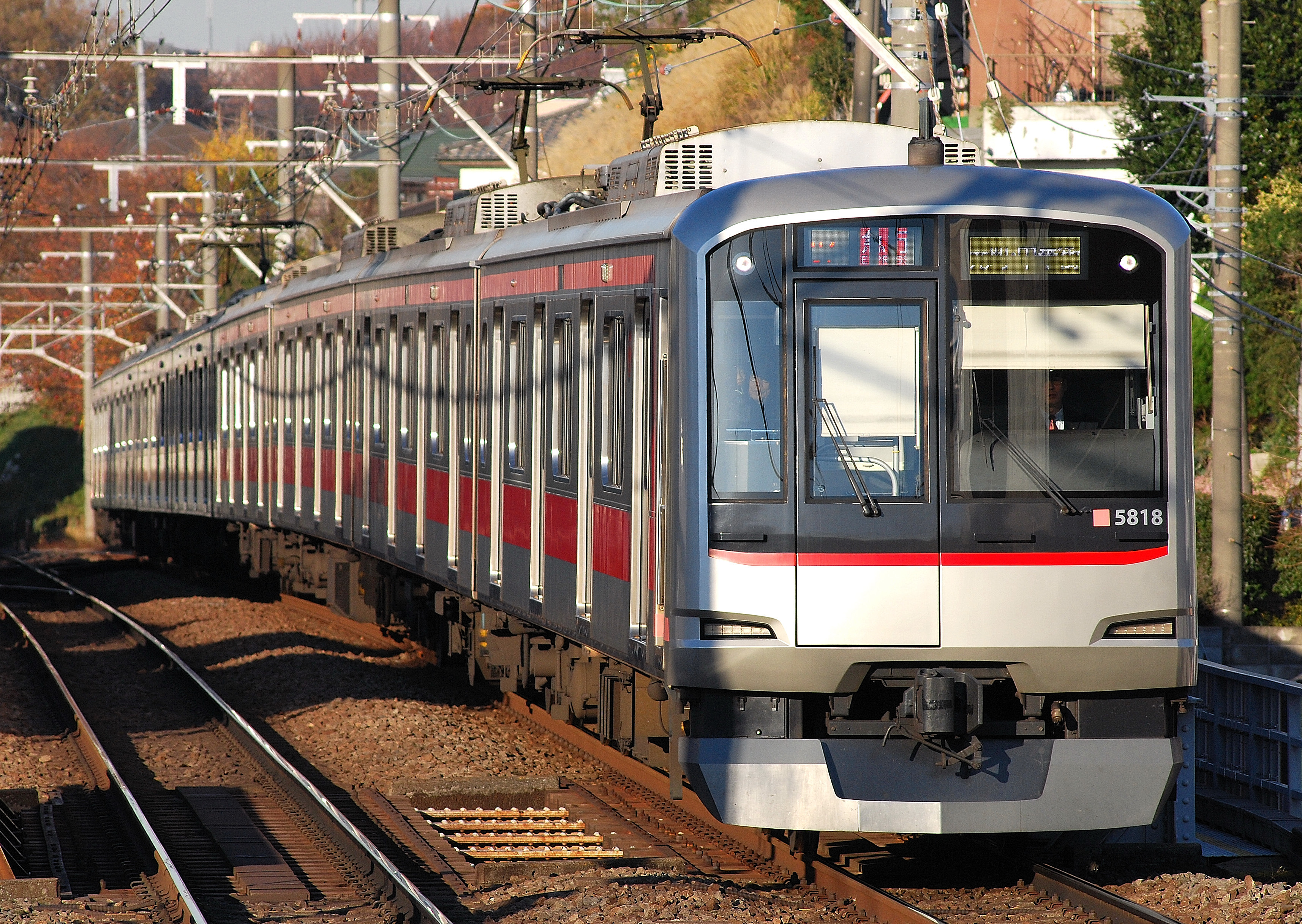 Tokyu 5000 series 8-car EMU set 5118 on a Tokyu Toyoko Line service near Myorenji Station